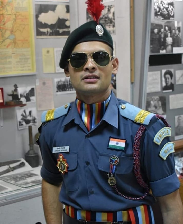 YEP Cadet Akhilesh Goswami YEP Kazakhstan 2019